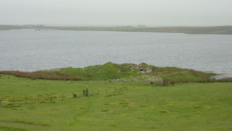 The Broch of Yarrows, near Wick, Caithness, Scotland